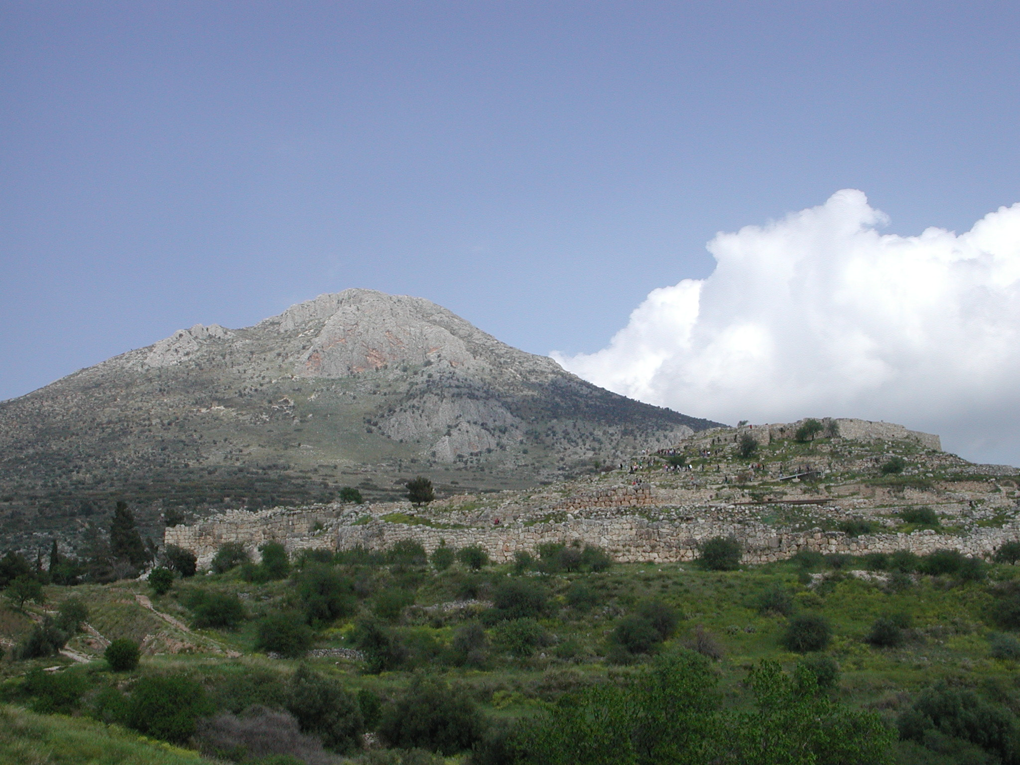 Voew of the remains of the ancient town of Mycenae, in Greece.